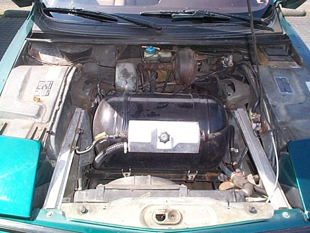 Picture of an LPG tank under the front hood of a Matra Murena